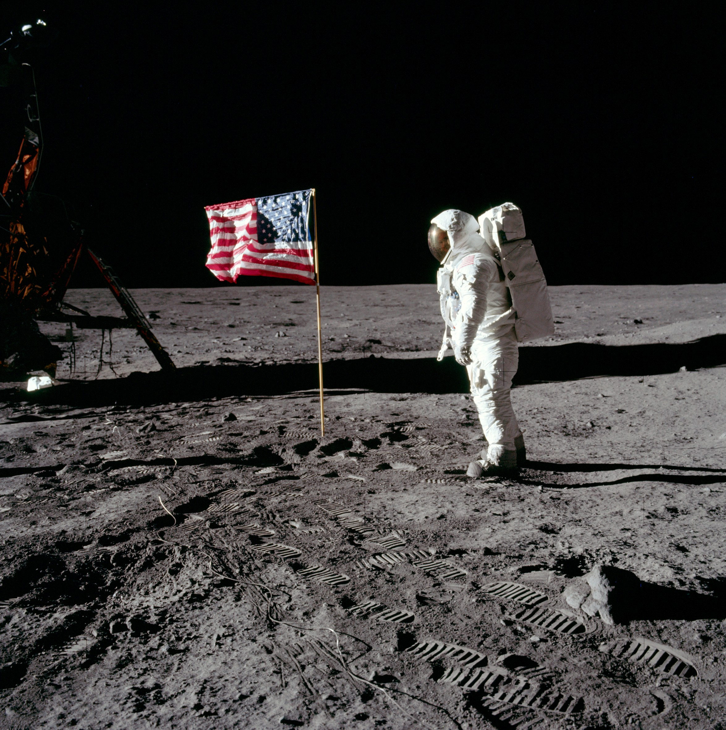 Apollo 11 astronaut Edwin Aldrin poses for a photo beside the U.S. flag on the Moon (mission time: 110:10:33).